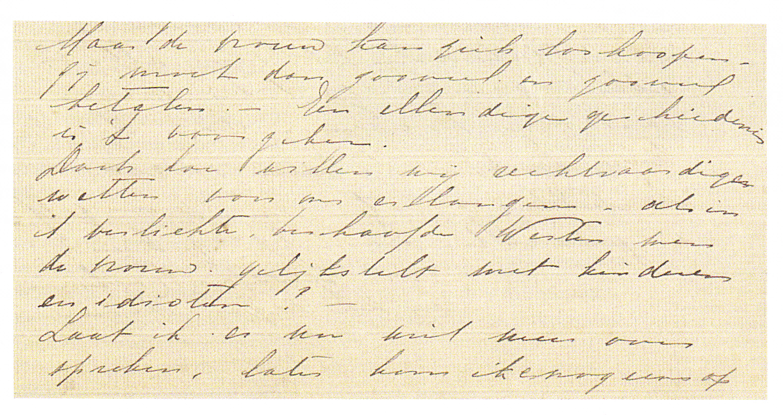 Fragment of a letter (in Dutch) by Kartini to Rosa Abendanon. Date: 1903 or 1904